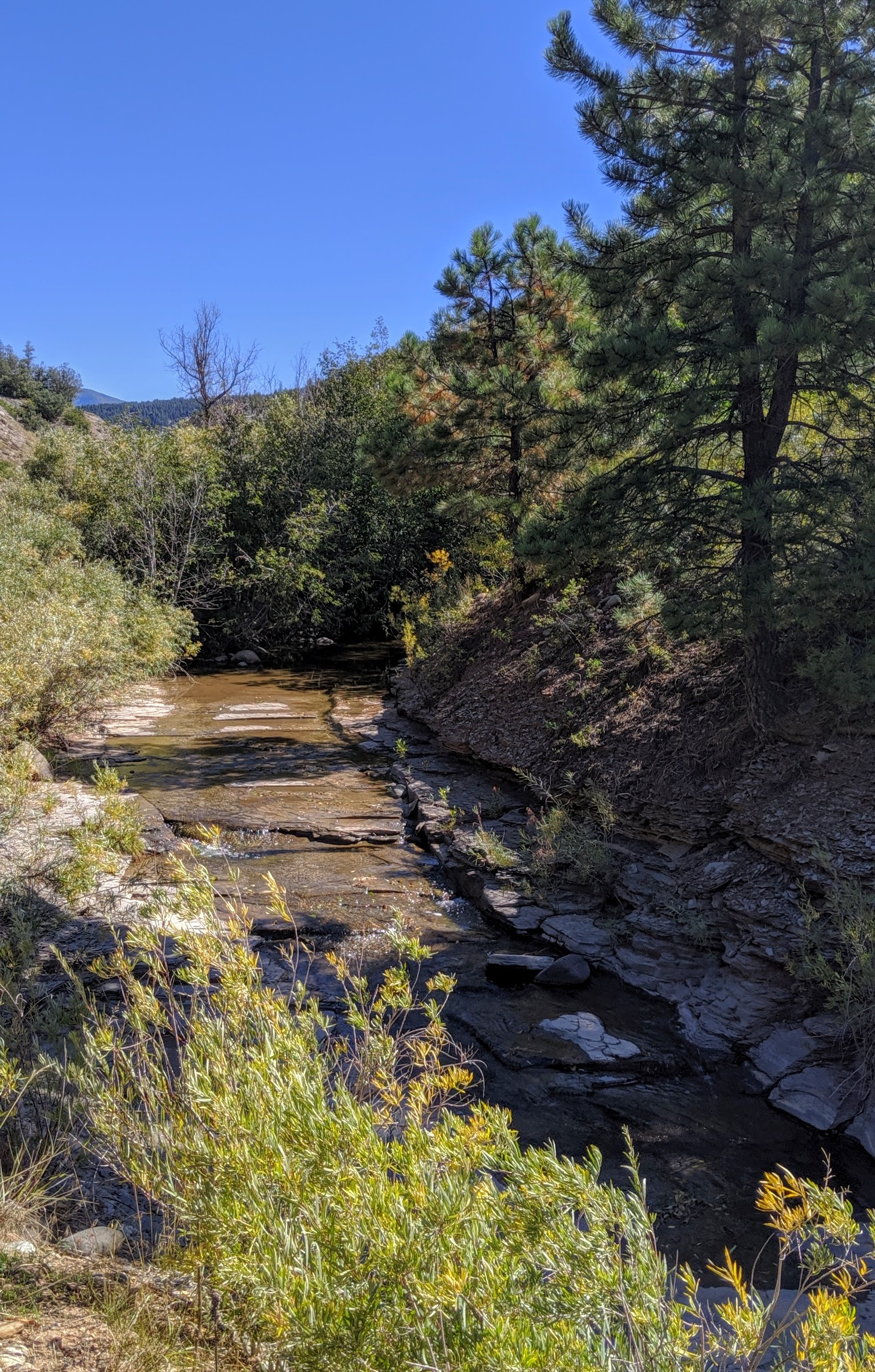 Rito Blanco (tributary of Rio Blanco) from Blanco Basin Road near US highway 84, Archuleta County, Colorado